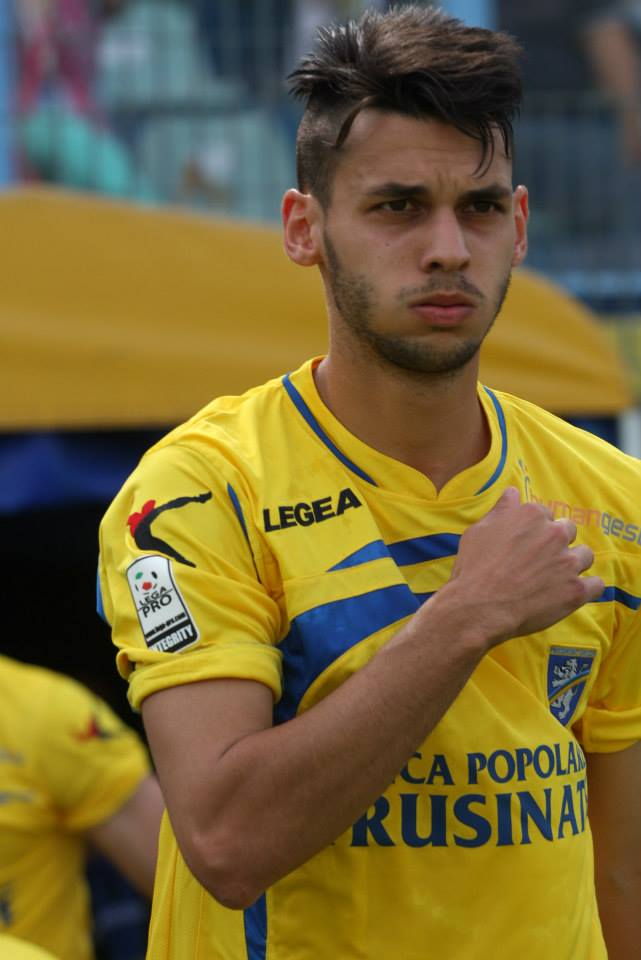 Mirko Gori, Frosinone football player